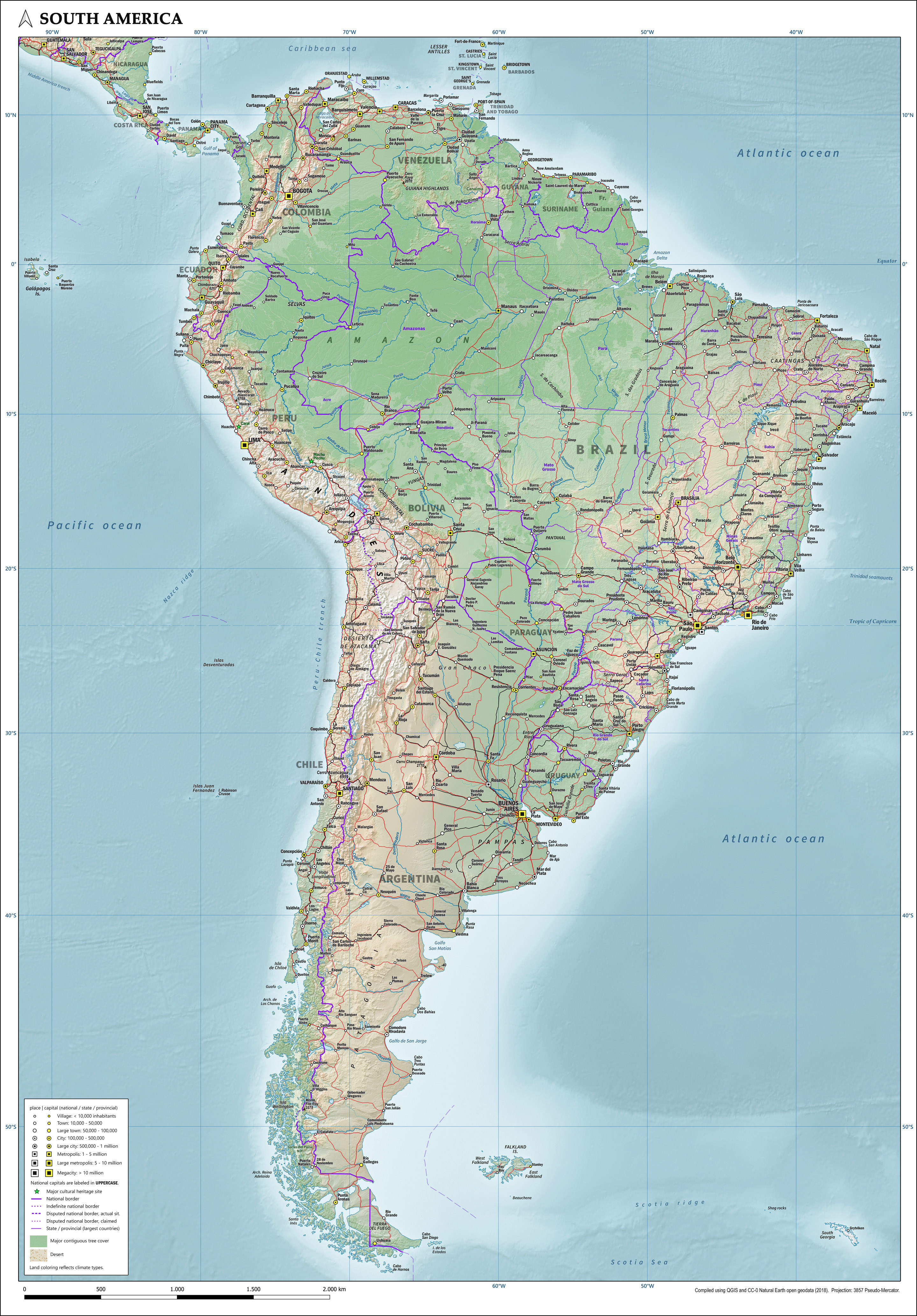 Map of South America showing physical, political and population characteristics, in Mercator projection, with legend, as per 2018. Compiled using QGIS and CC-0 Natural Earth geodata.